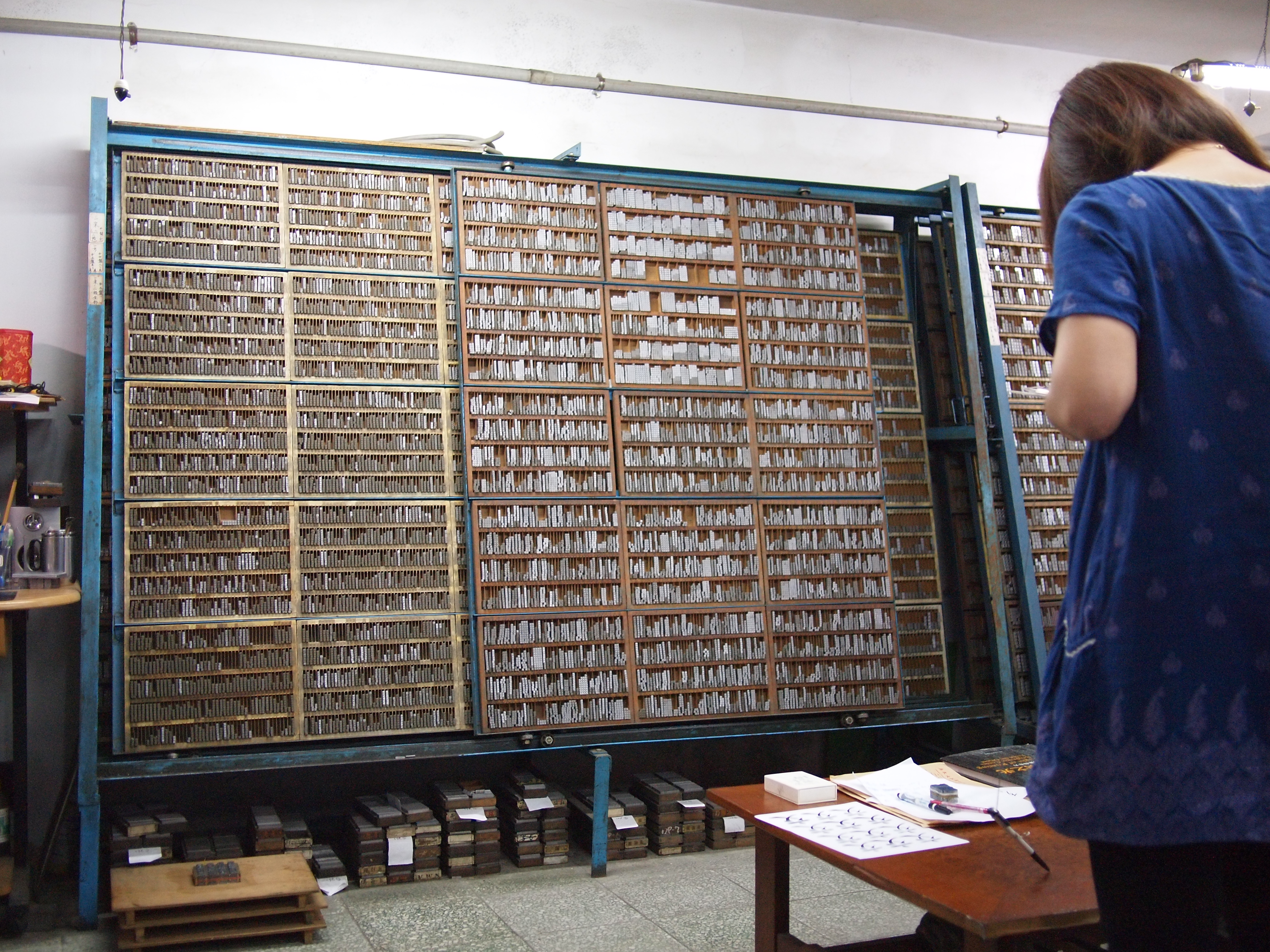 Ri Xing Type Foundry中文（中国大陆）: 日星鑄字行